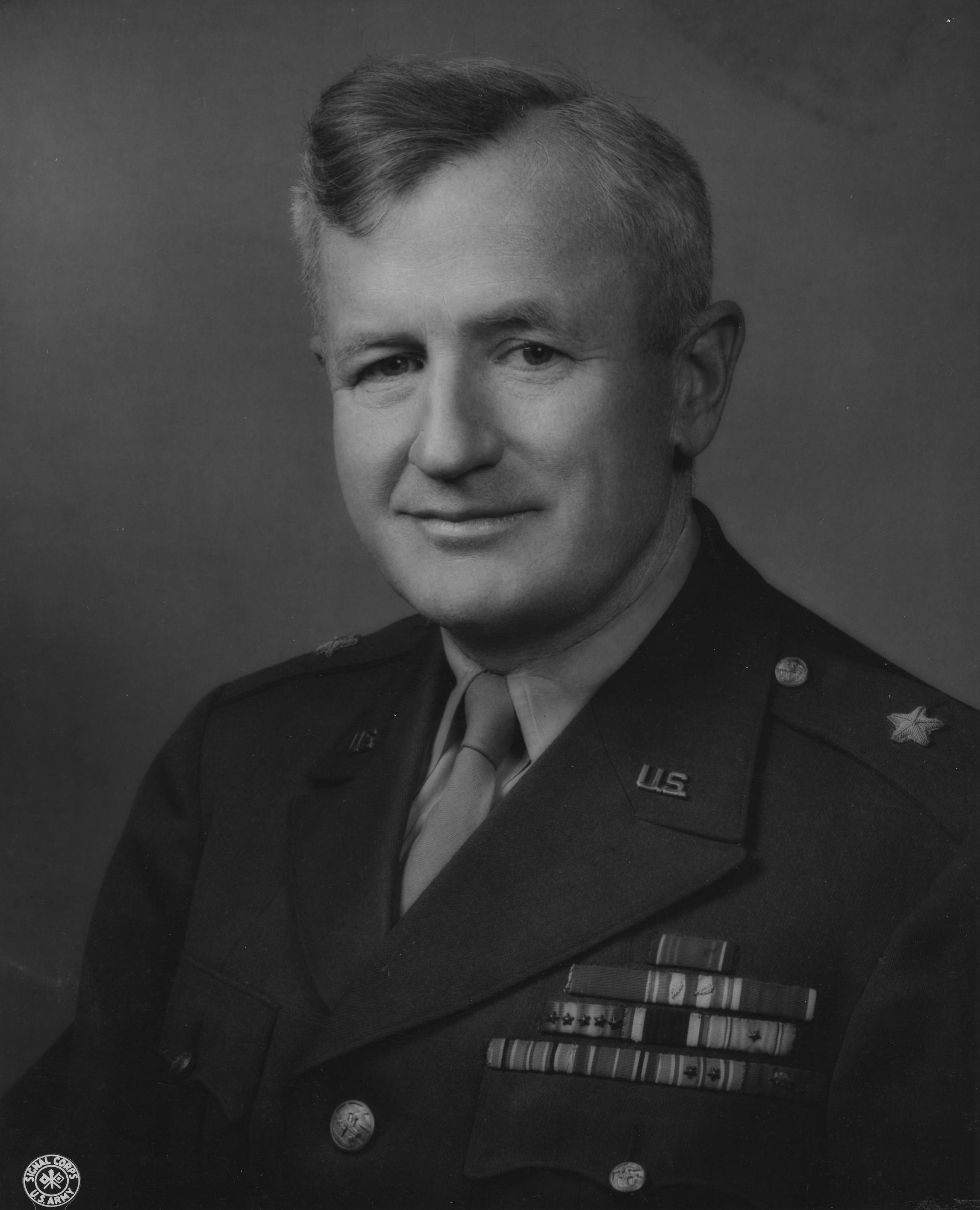 Brigadier General Thomas Farrell